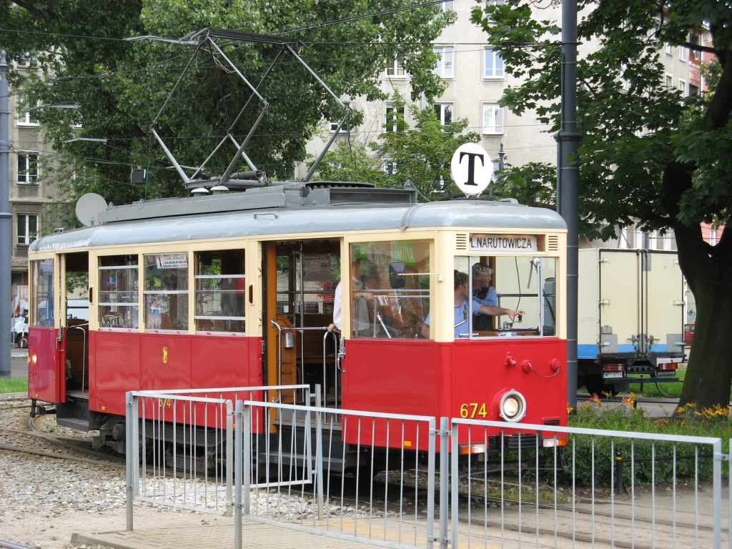 Restored Konstal N tram car (No 674) from the 1950s in Warsaw on Plac Narutowicza running on a special tourist line